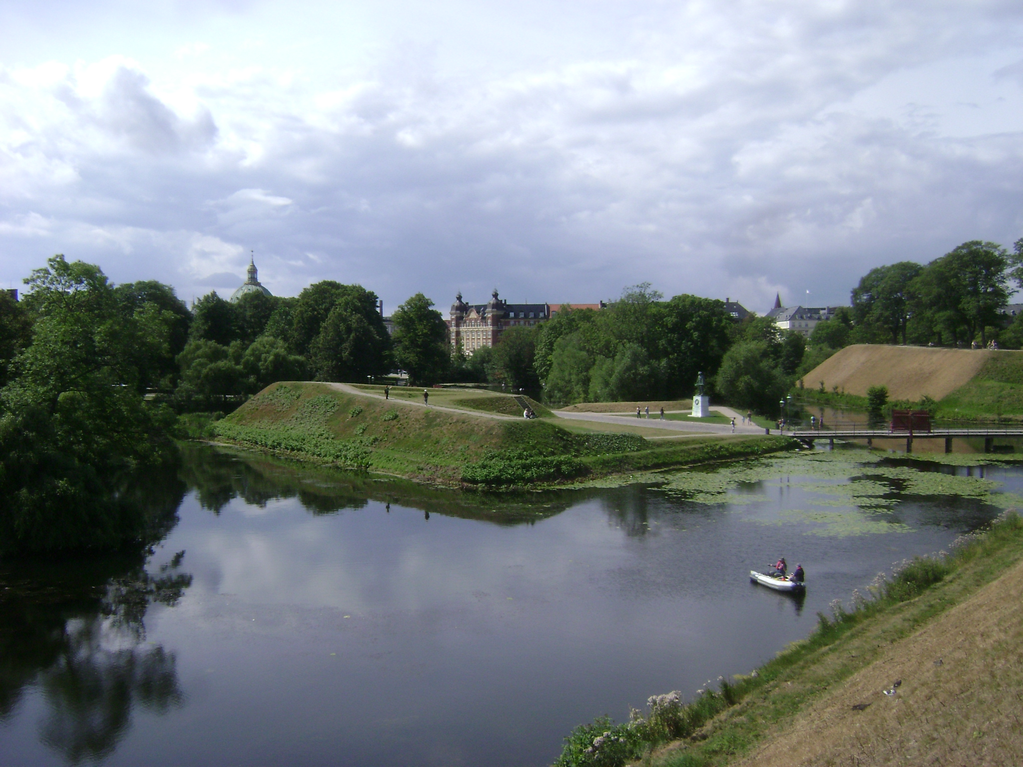 Denmark. Capital Region. Copenhagen